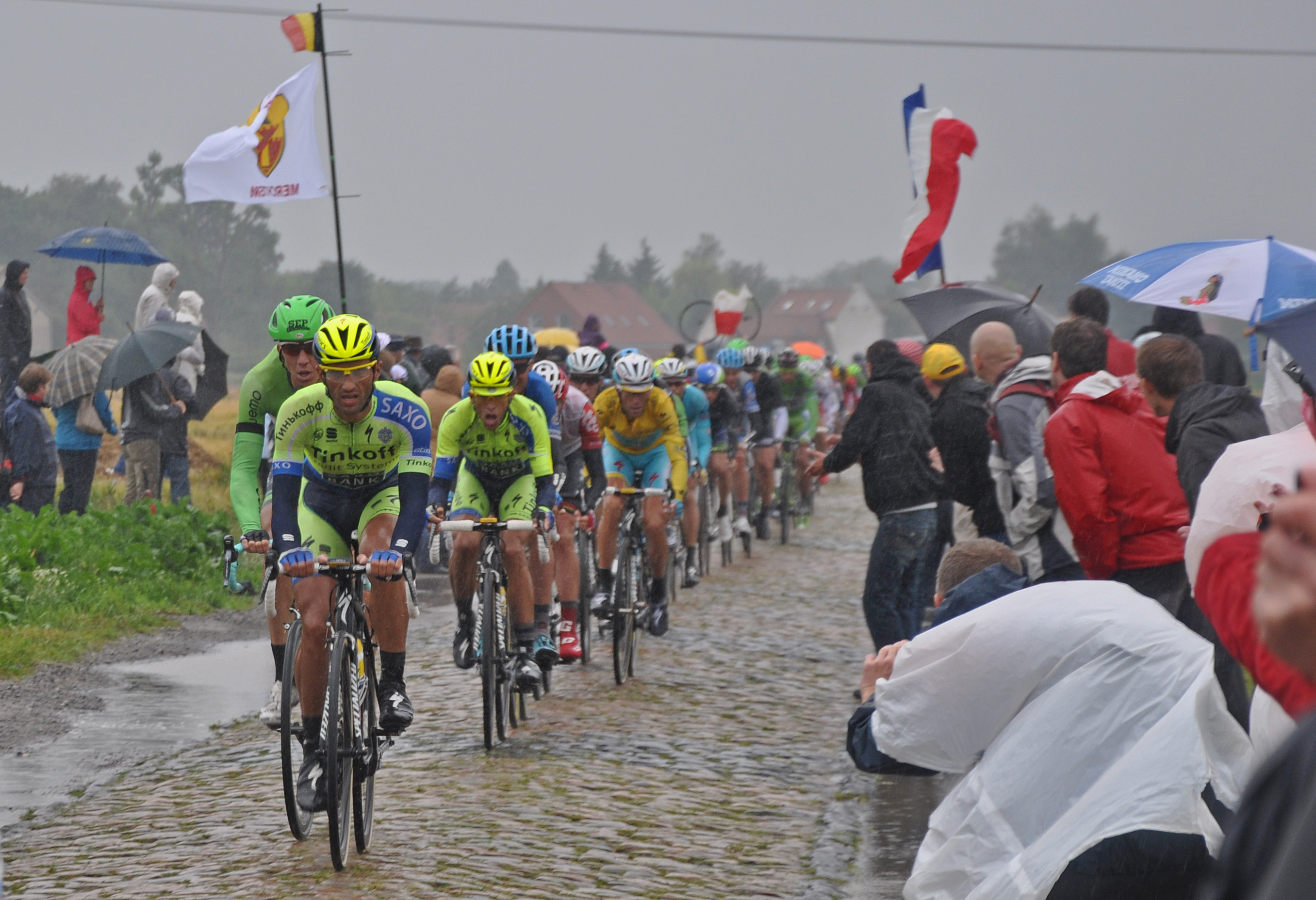 Le peloton TDF2014 Etape 5 Gruson